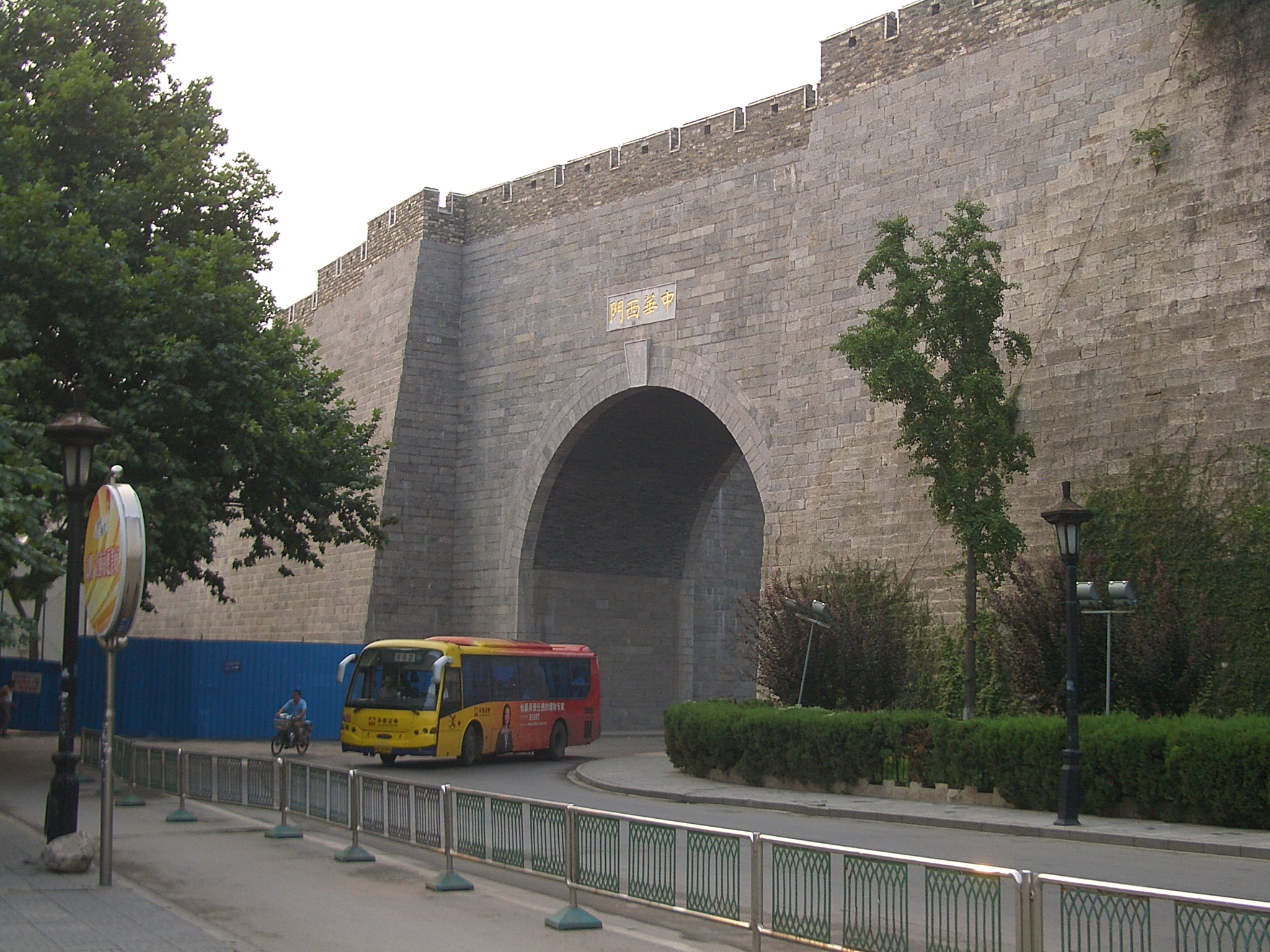 The Zhonghua Gate complex at the southern part of the City Wall of Nanjing